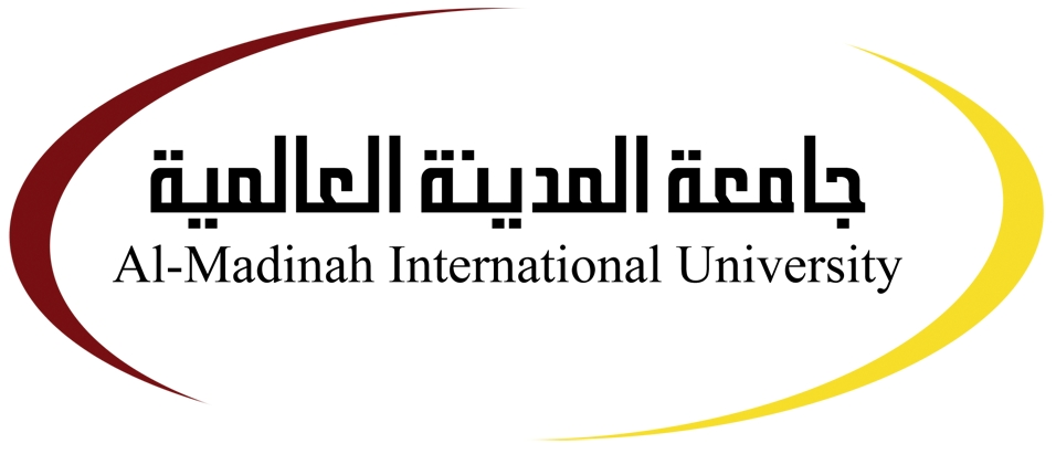 MEDIU AL-Madinah University